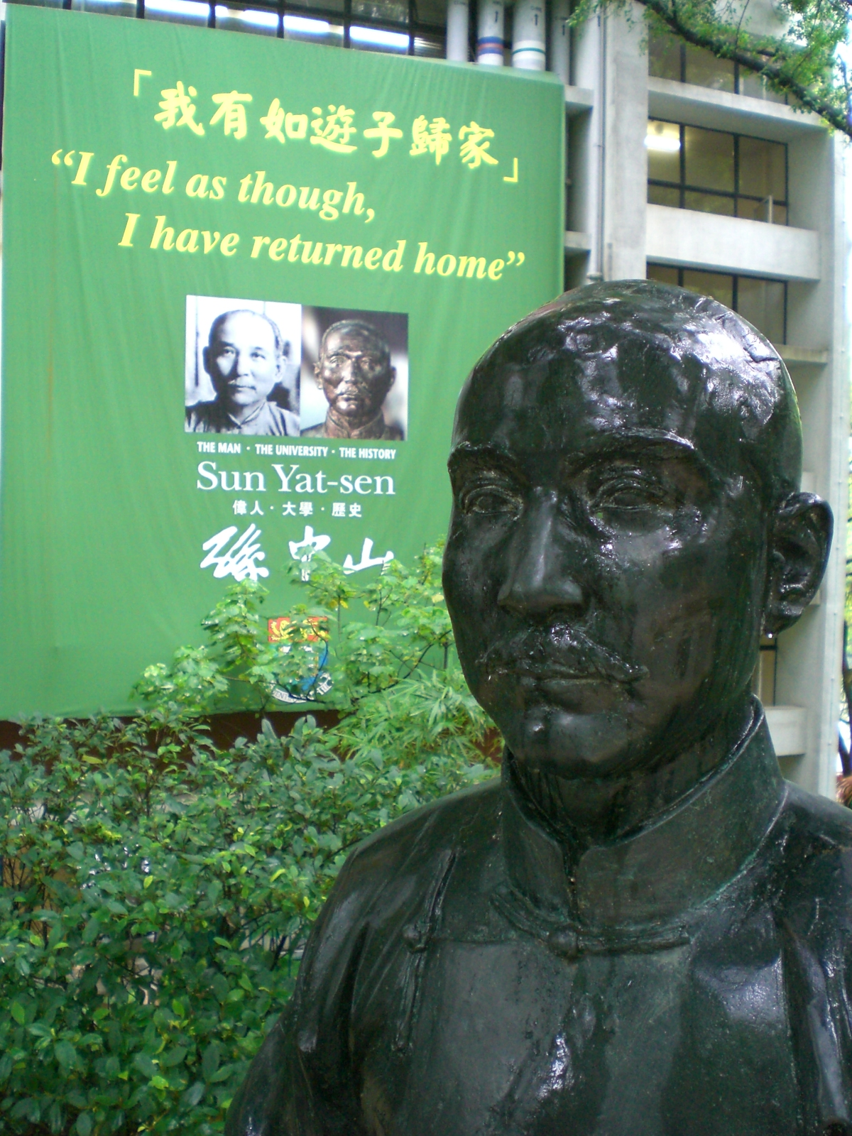 Sun Yat-sen statue by the lily pond, at the University of Hong Kong